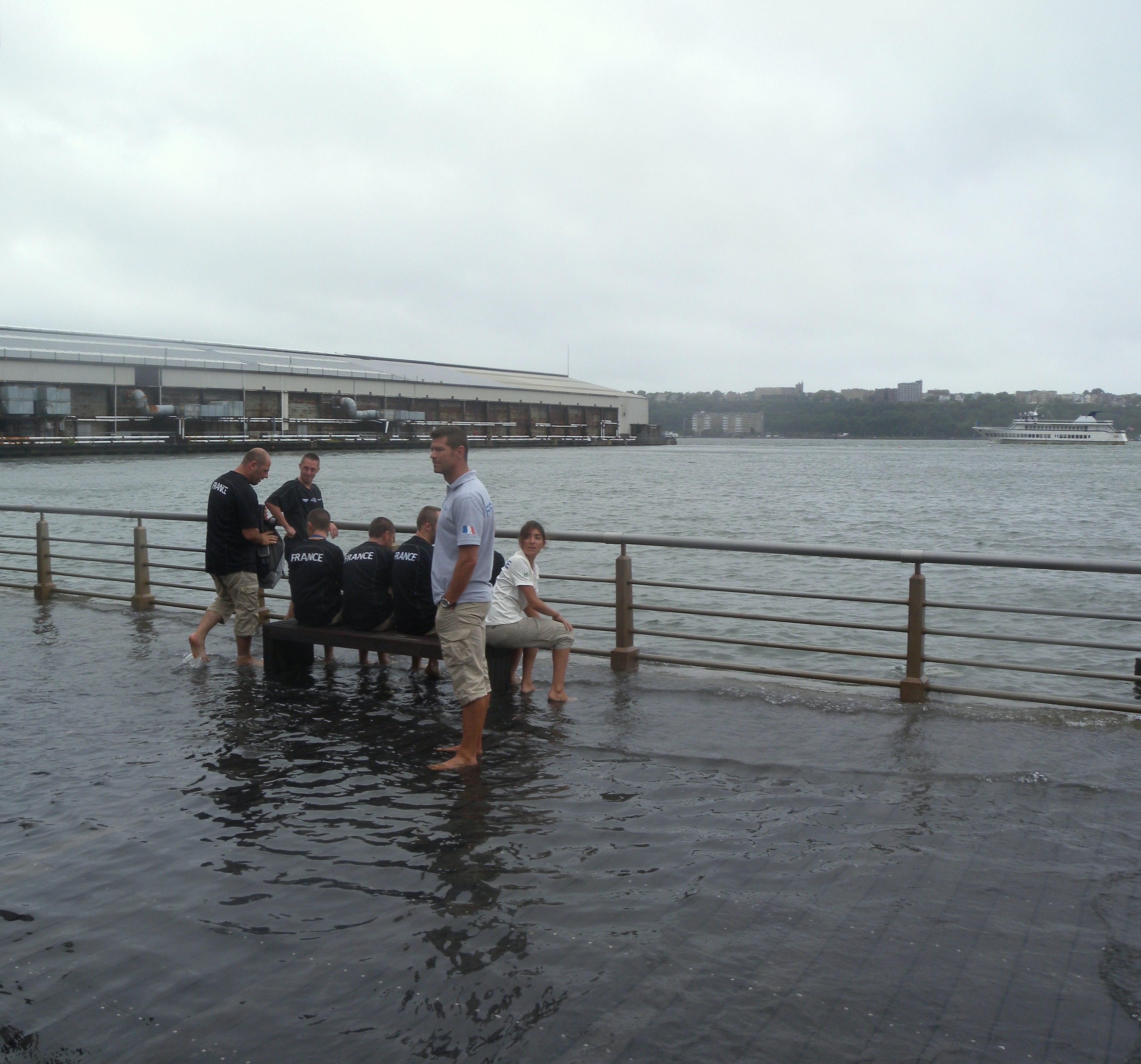 Looking west as a French team of firefighters / athletes visit a flooded bit of Hudson River Park when their competition in the World Police and Fire Games was cancelled due to hurricane.